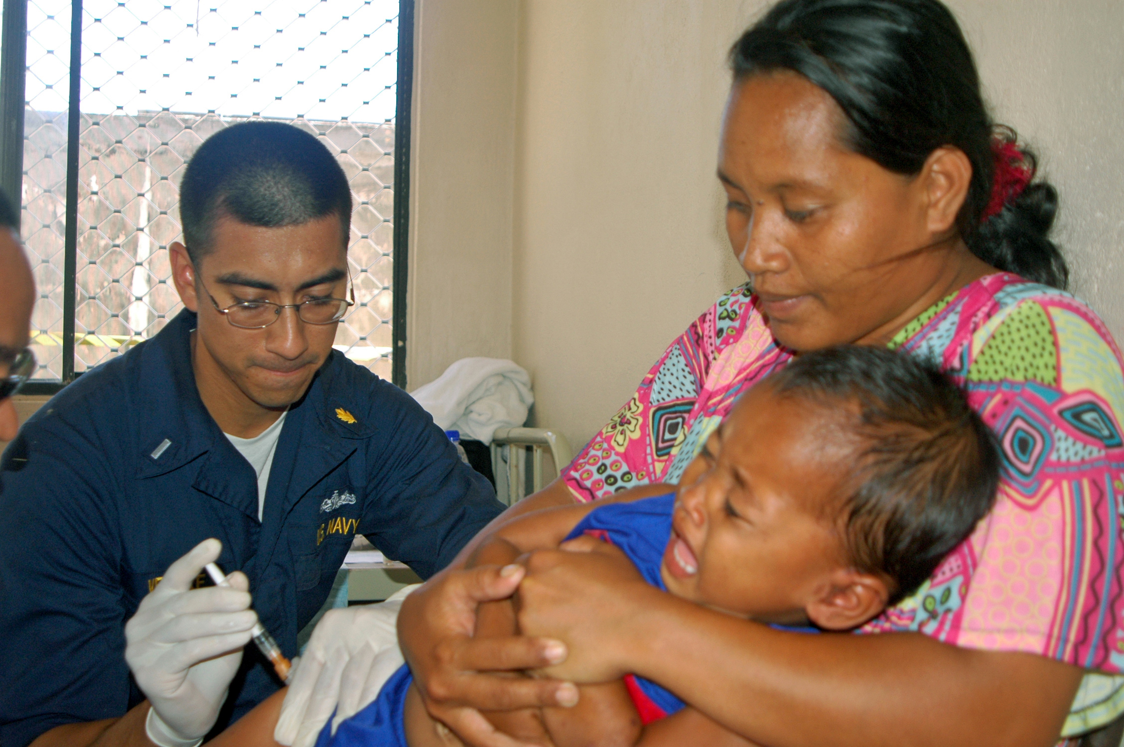 AUR, Republic of the Marshall Islands (Aug. 31, 2007) - Lt. j.g. Jeremy Venske gives a small boy an immunization at a medical civic action program. Medical personnel aboard amphibious assault ship USS Peleliu (LHA 5), partner nation service members and non-governmental organization members provided immunizations, medical screenings, optometry, pediatric, and dental care for more than 150 patients in support of Pacific Partnership. U.S. Navy photo by Mass Communication Specialist Seaman Matthew Jackson (RELEASED)